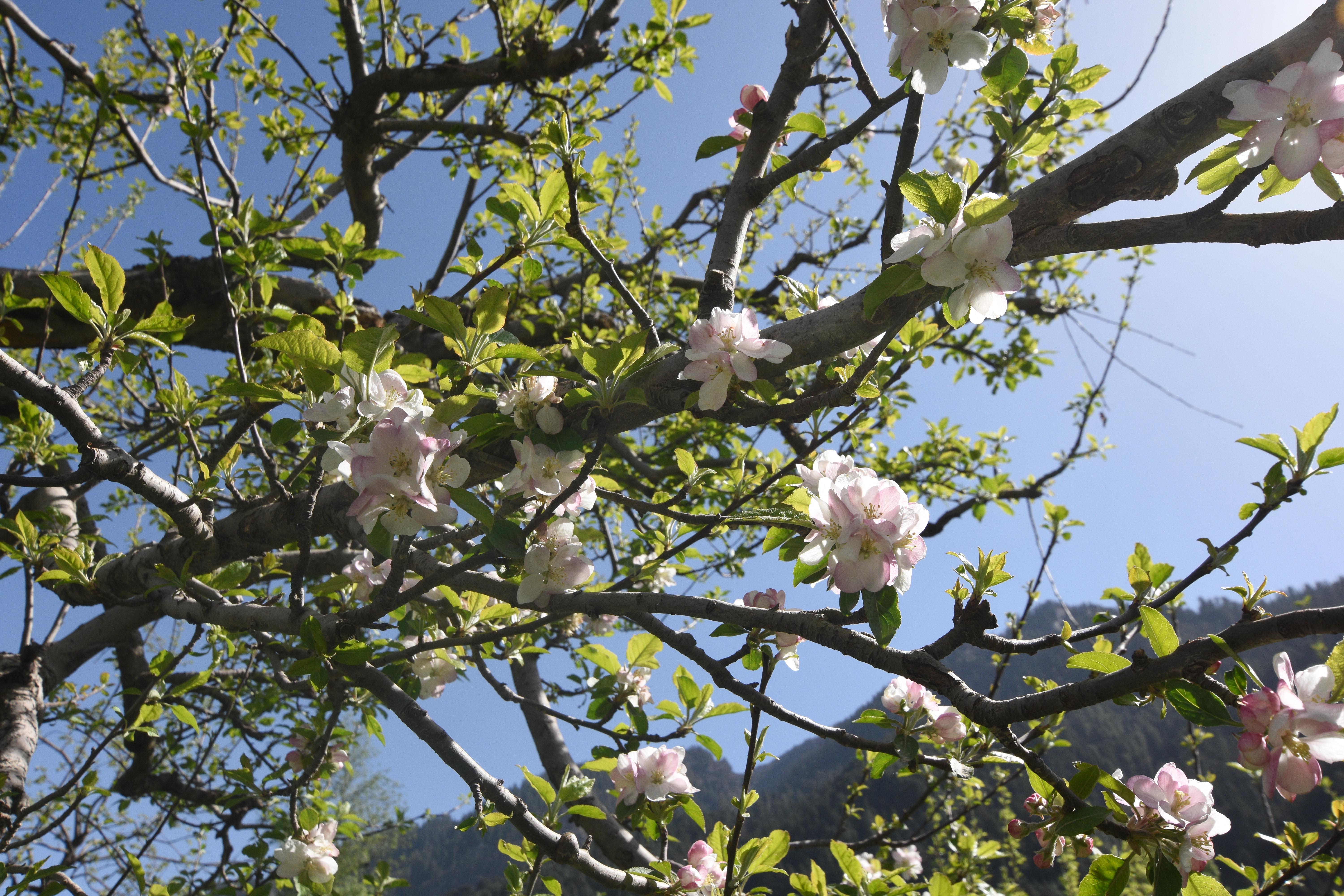 Apple Blossom @ Manali, India